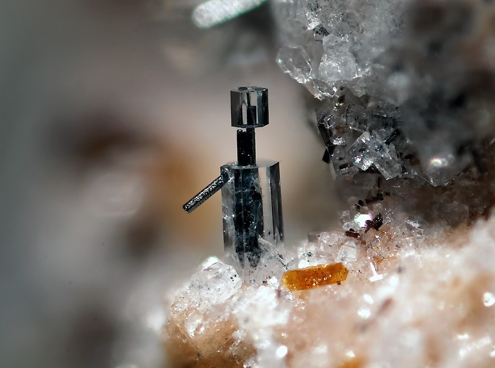 Nepheline grown around a Hematite crystal (Image width: 2 mm) - Locality: Wannenköpfe, Ochtendung, Eifel region, Germany